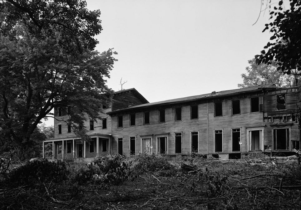 North American Phalanx, Country Route 537 , Phalanx, Monmouth County, NJ - HABS NJ,13-PHAL,1-2